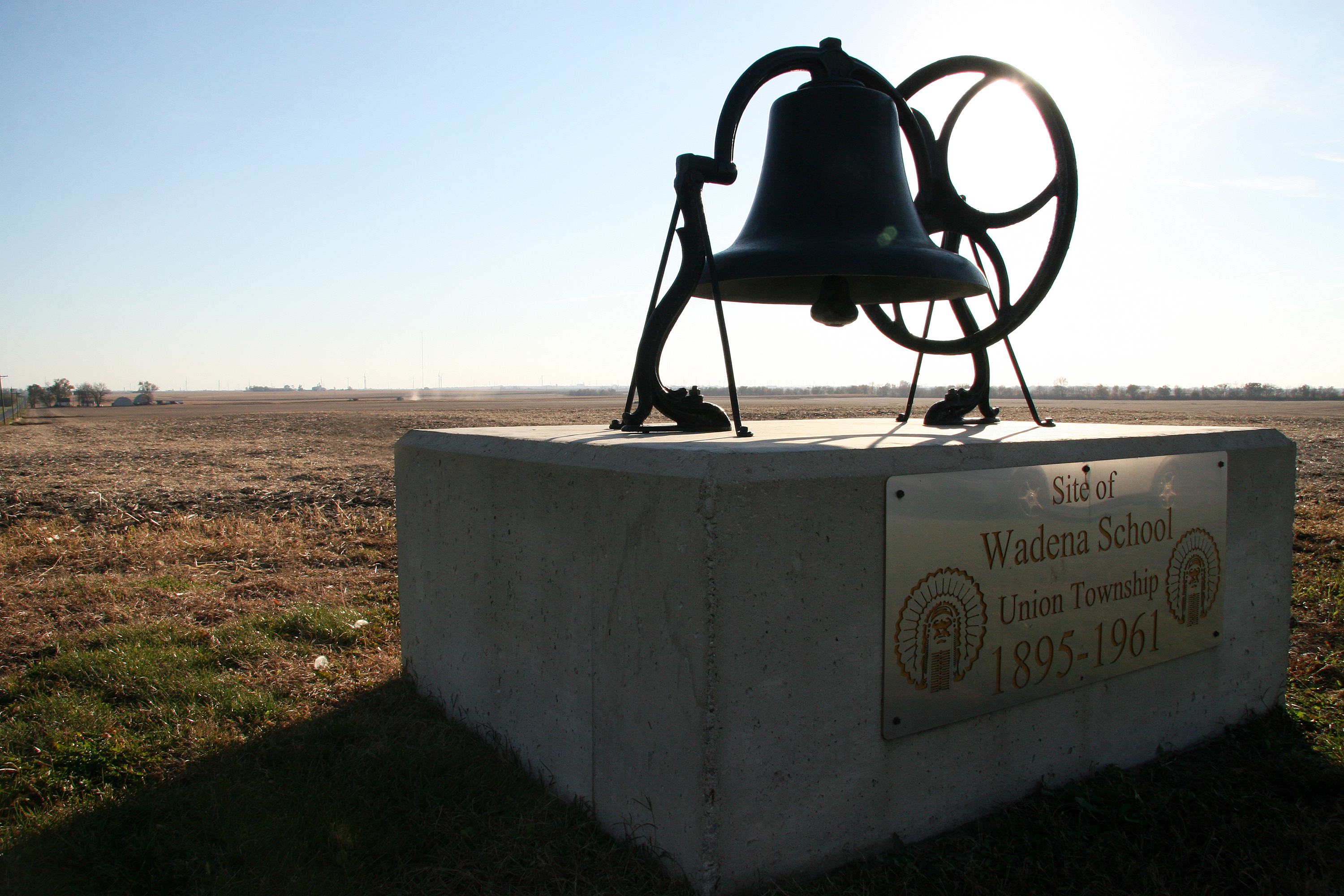 A school bell sits as a monument to Wadena School, just east of the small town of Wadena in Union Township, Benton County, Indiana. Photo looks southwest from the corner of Benton County Roads 600 North and 300 East. Plaque reads: Site of Wadena School Union Township 1985 - 1961